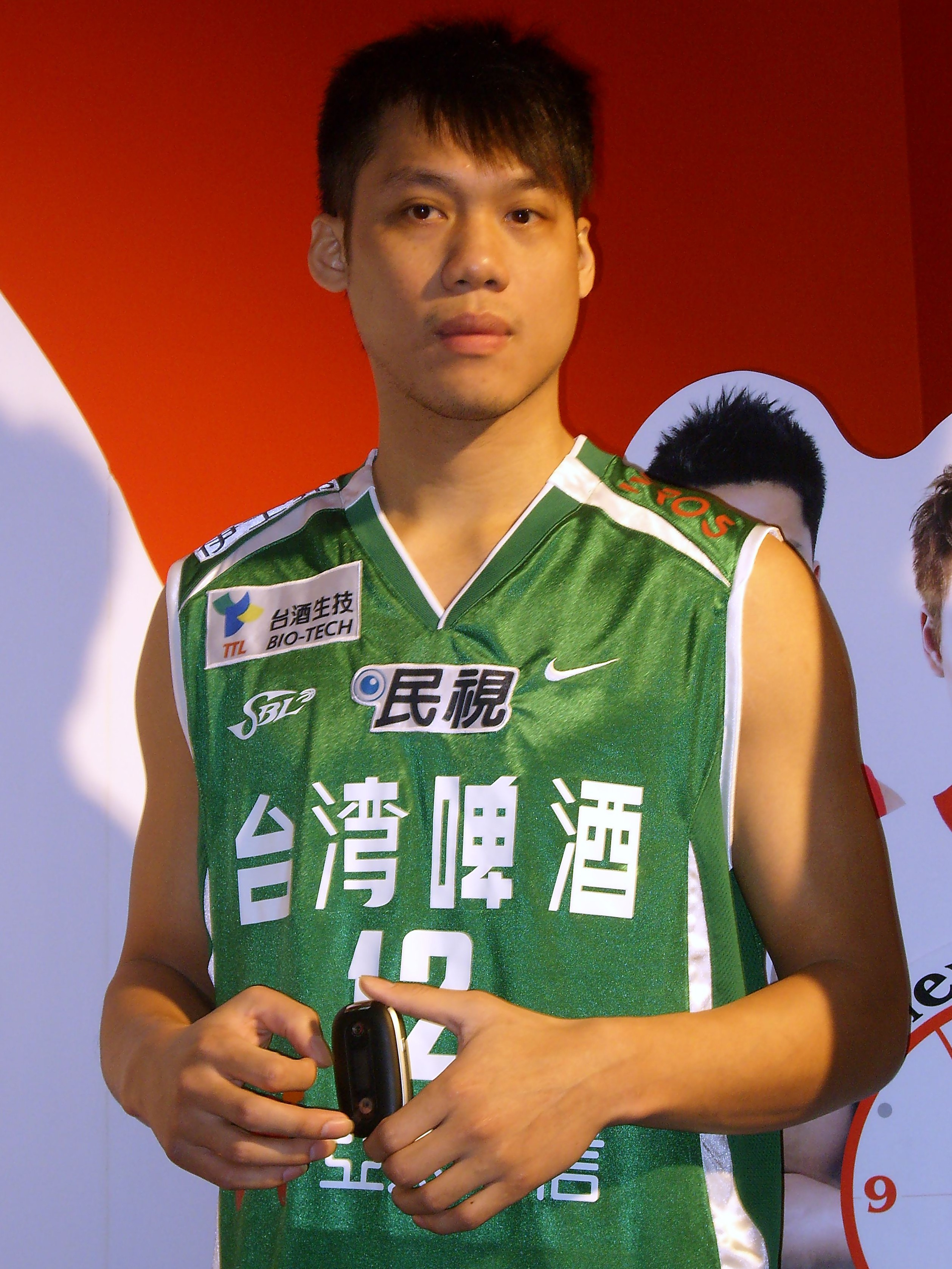 2007 Taipei IT Month: Chih-chieh Lin, a basketball player from Taiwan.